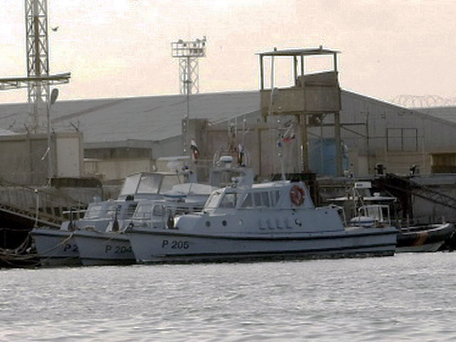 Iraqi navy boats on the Khar Abd Allah river in Umm Qasr, south port terminal of Basra, Iraq, on May 18, 2009.